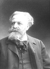 Photograph of Edouard Colonne (1838-1910)